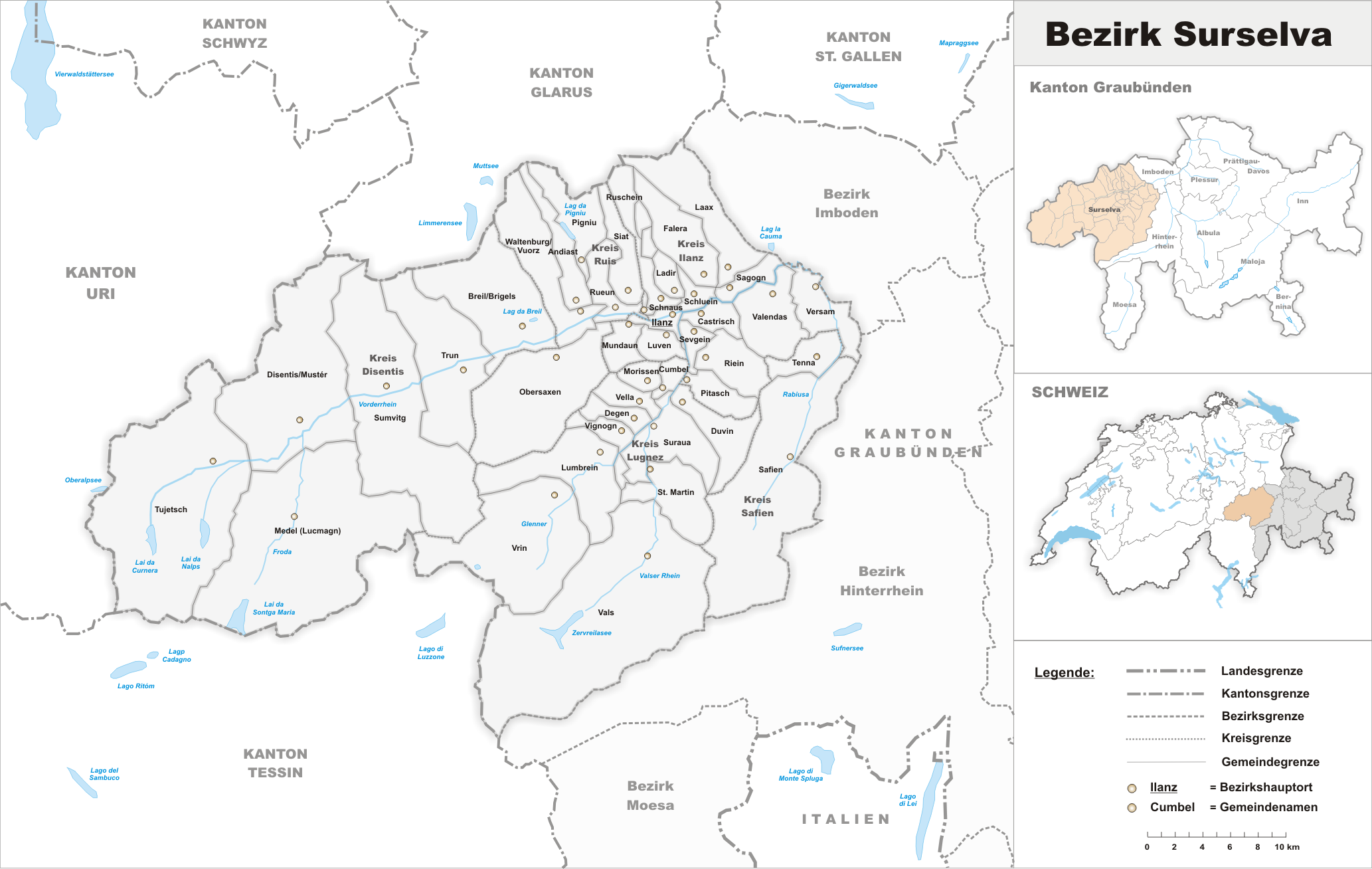 Municipalities in the district of Surselva